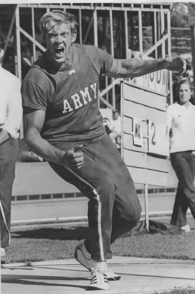 1971 Press Photo Ex Oregon Stater Tim Vollmer, shown in winning effort at meet